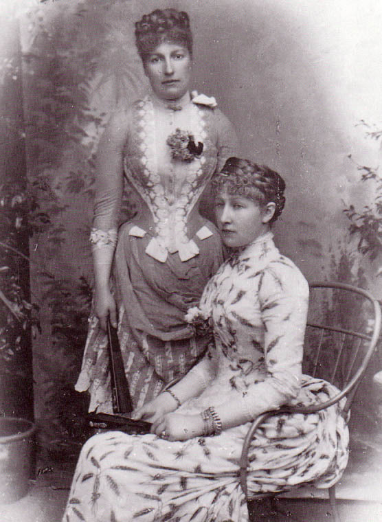 Louise (1858-1924) & Stephanie (1864-1945) - princesess of Belgium